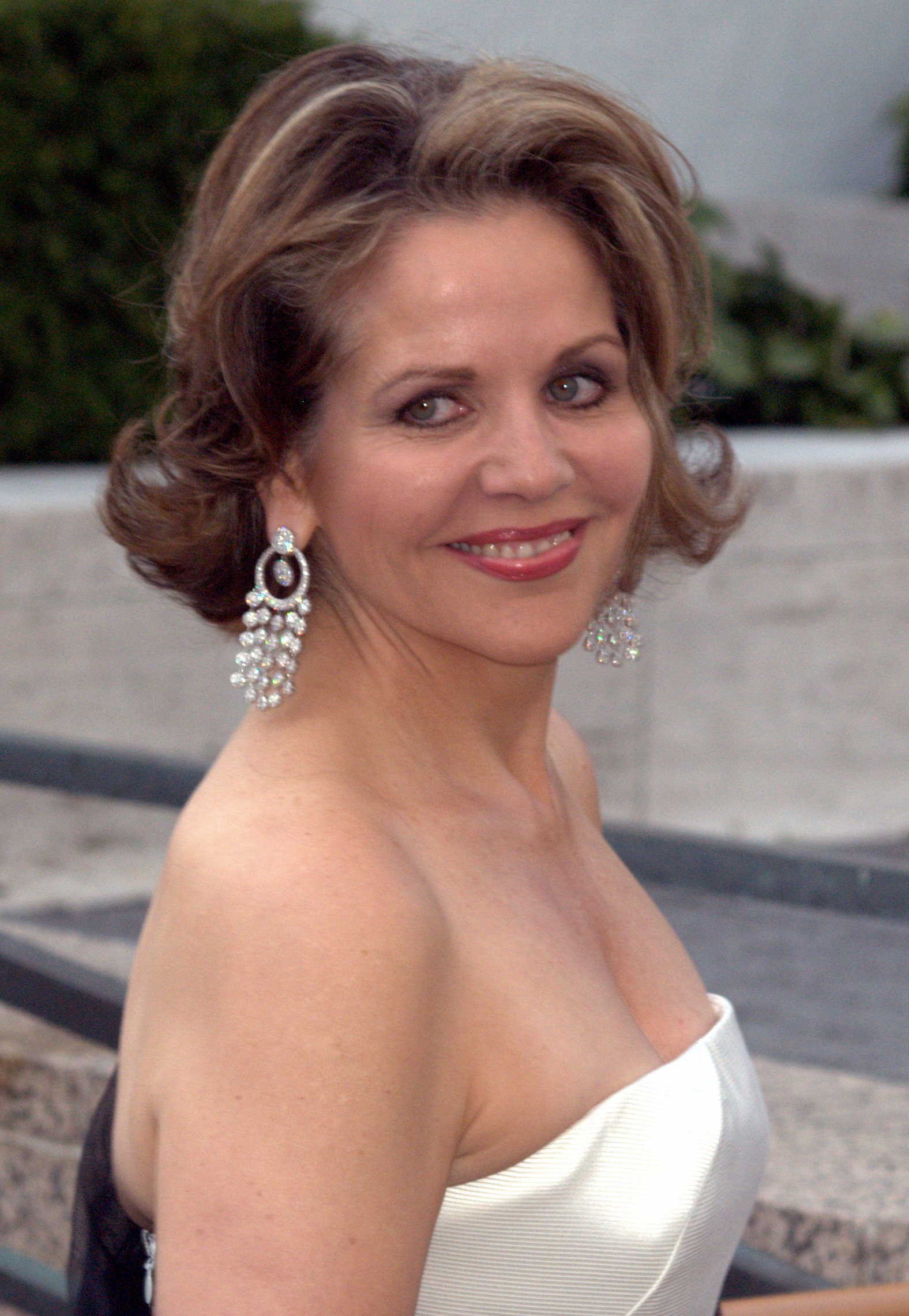 Renée Fleming at the 2009 premiere of the Metropolitan Opera in New York City. Photographer's blog post about event and photograph.